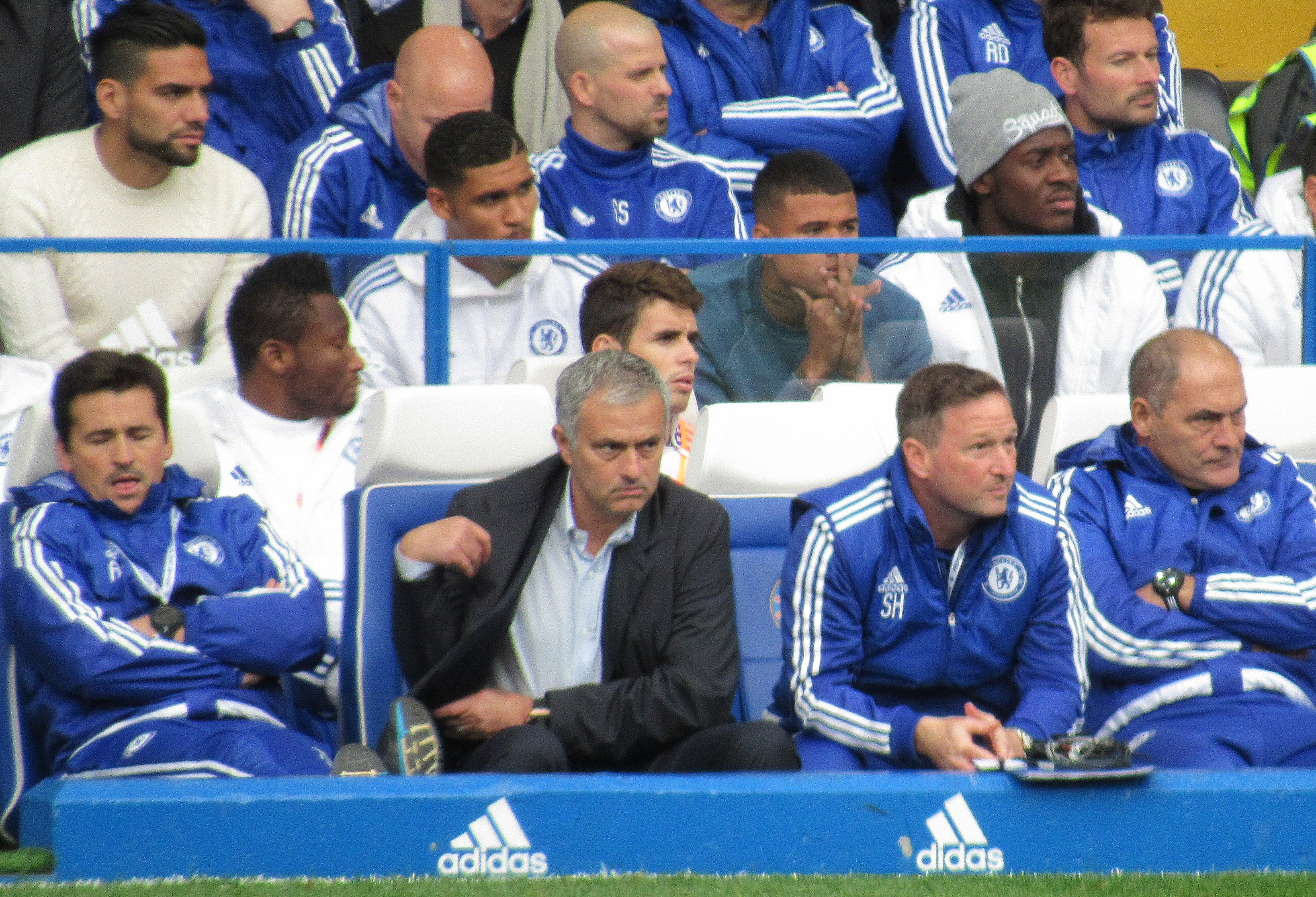 Rui Faria (far left) seemingly asleep on the bench Chelsea v A.Villa October 2015